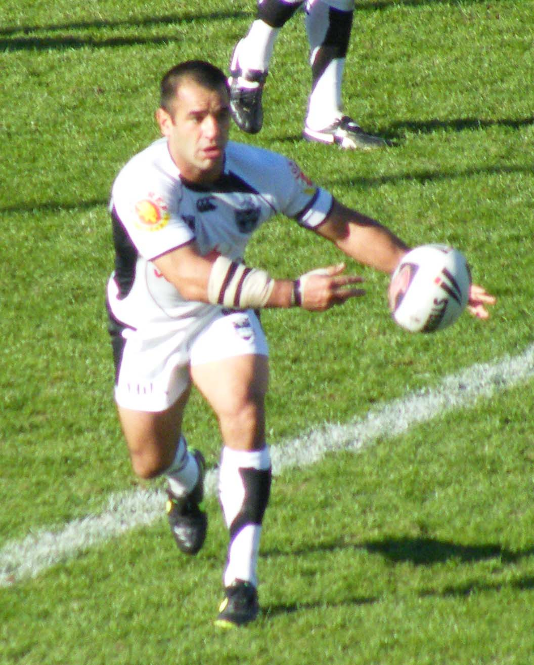 Stacey Jones passes to his left while playing for the New Zealand Warriors against Cronulla at Shark Park in 2009.